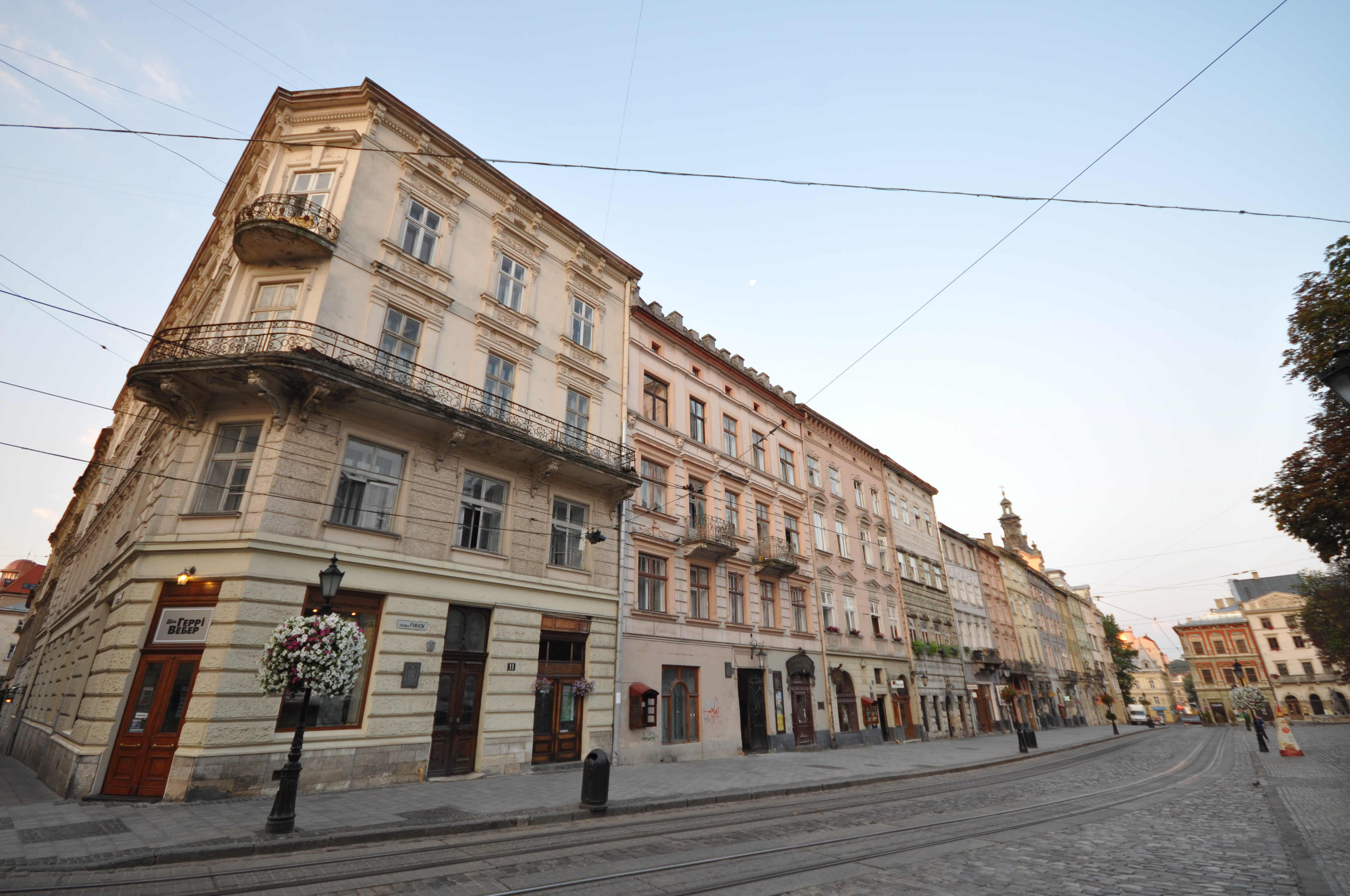 Southern side of the Rynok Square, Lviv, Ukraine